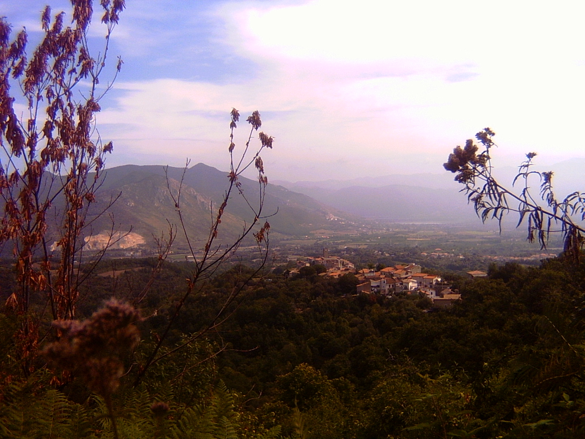 View of the town of Tora, Caserta province, Italy